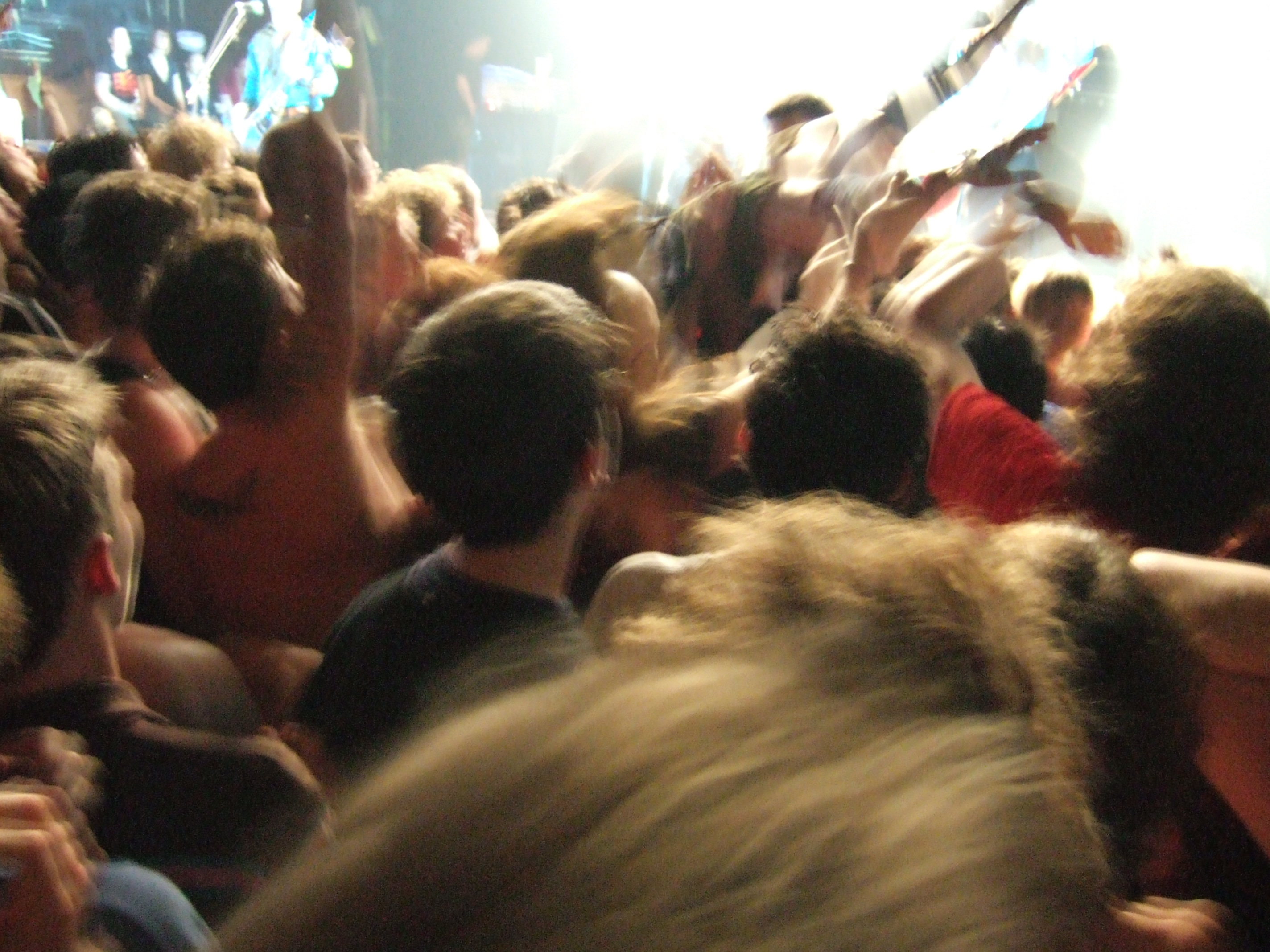 A mosh pit, uploaded from flickr